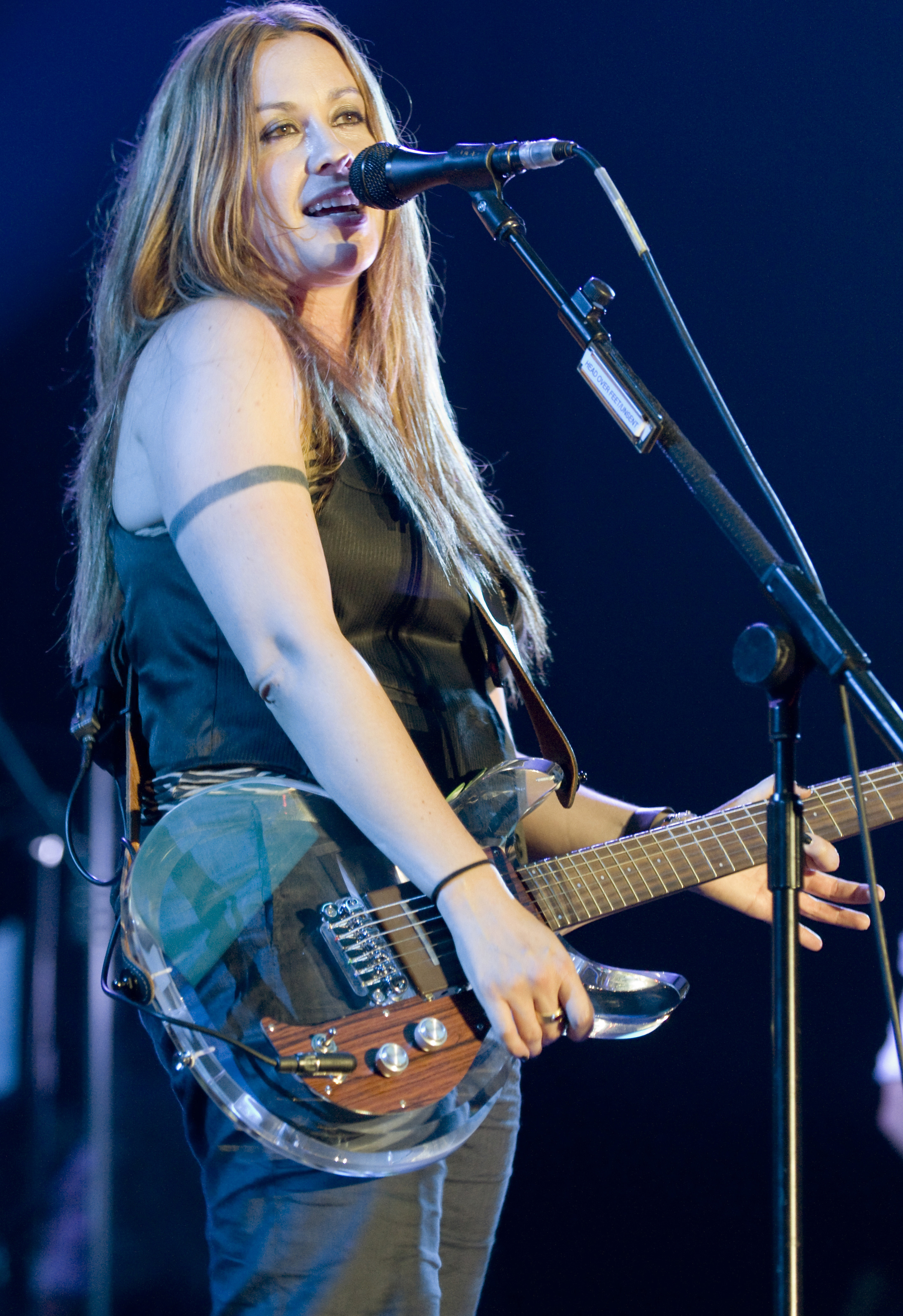 Alanis Morissette. Performing a live concert in the Espacio Movistar, Barcelona, June 2008.